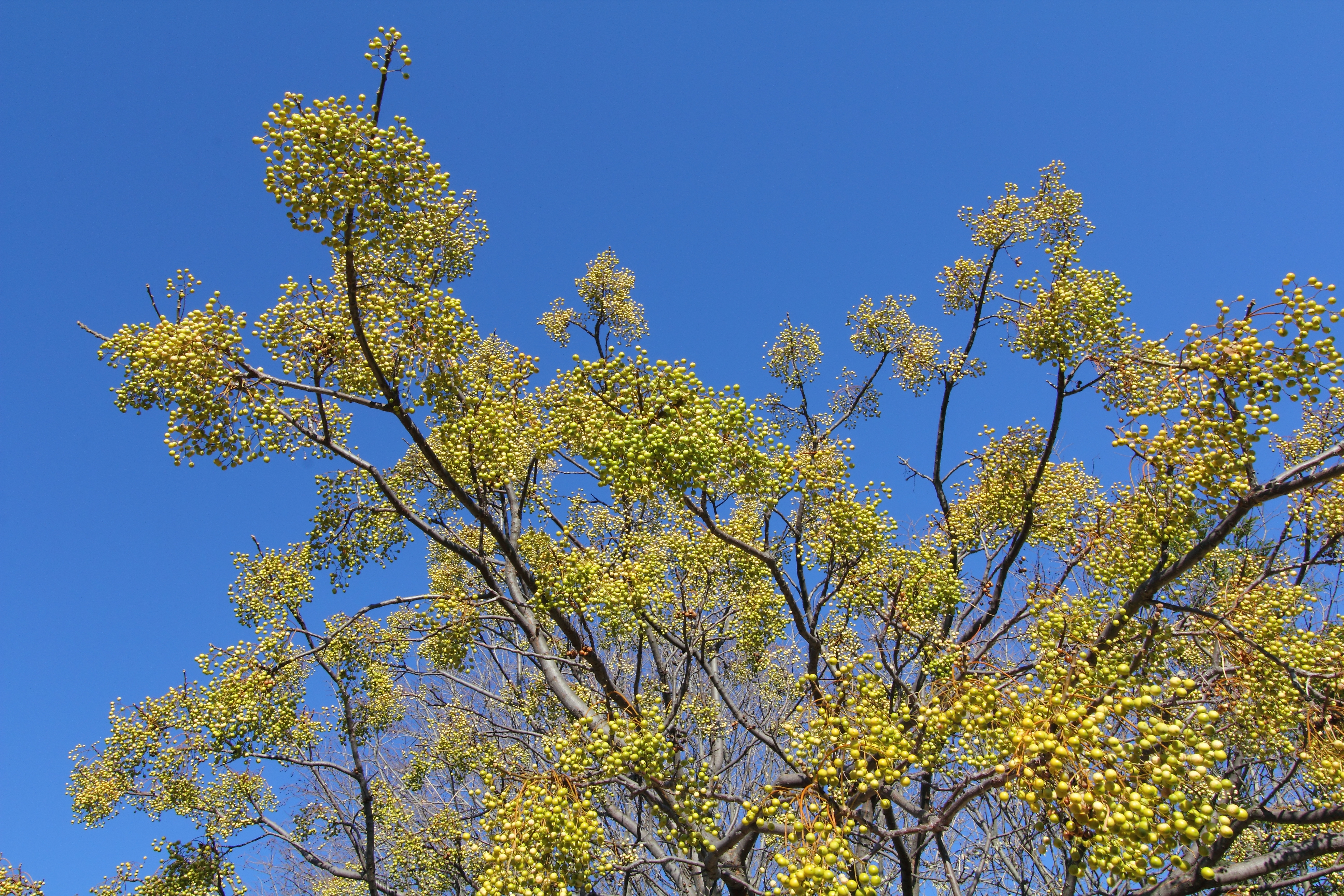 Drupes of Melia azedarach during winter.